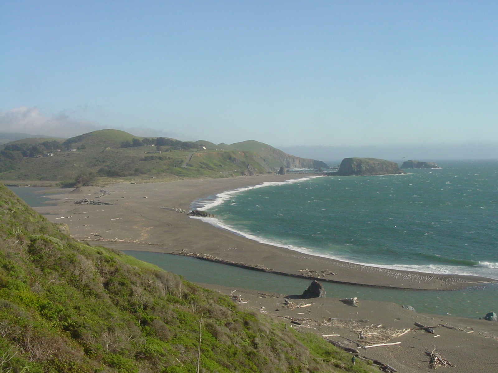 The mouth of the Russian River in California as viewed from the Jenner cliffs looking south. The beach in the foreground is Jenner Beach and in the middle ground is Goat Rock Beach (part of the Sonoma Coast State Beaches). Goat Rock itself is visible to the right and behind it in the water is a sea stack named Arched Rock. Reclining Sea Lions can be seen lining the Goat Rock Beach side of the river mouth.